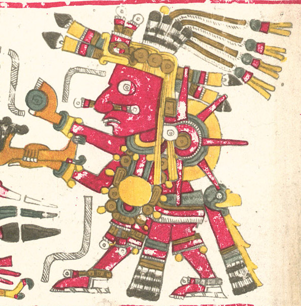 A drawing of Tonatiuh, one of the deities described in the Codex Borgia